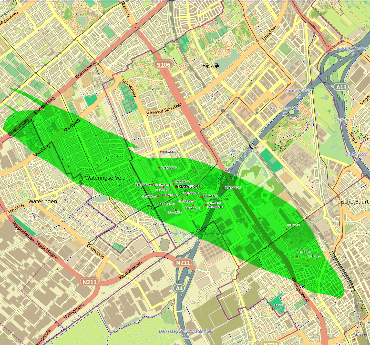 Map of the Rijswijk Oilfield, The Netherlands